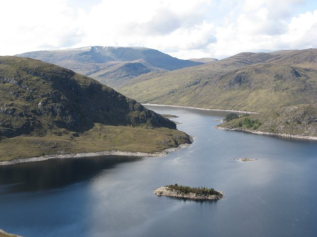 The southern end of Loch Monar. The enlarged loch just upstream of the dams. The Garbh-Uisge ran a curved course from the natural Loch Monar and into a gorge just in front of the bigger island. Maoile Lunndaidh in the background. Now that the gates stay open after 17:00 the hill is quite easily accessible from this side.